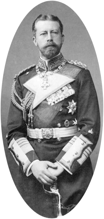 Picture shows a portrait of Prince Henry of Prussia: "July 8, 1913. Prince Henry of Prussia who expects to revisit the United States this summer to witness the yacht races, between German and American boats, at Marblehead, Mass. for the President Wilson and Governor F[oss] trophies." ; "Photo News Dep't.. 225 West 39th St.. American Press Ass'n., New York City."